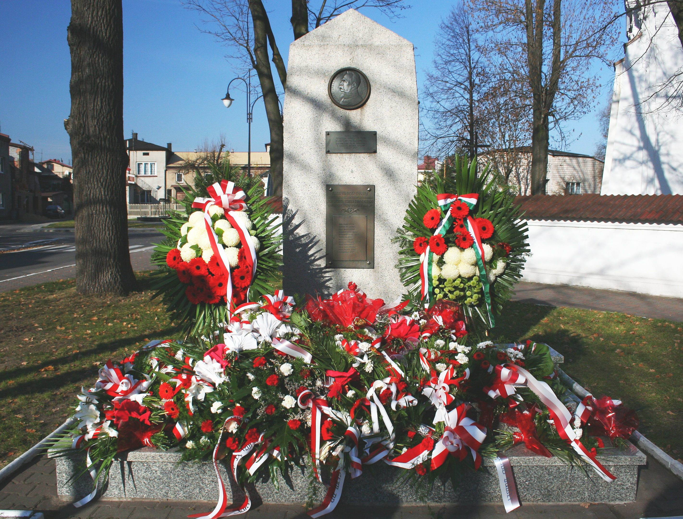 monument to Piłsudski in Siewierz, Poland